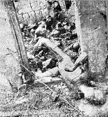 hutfirehurts